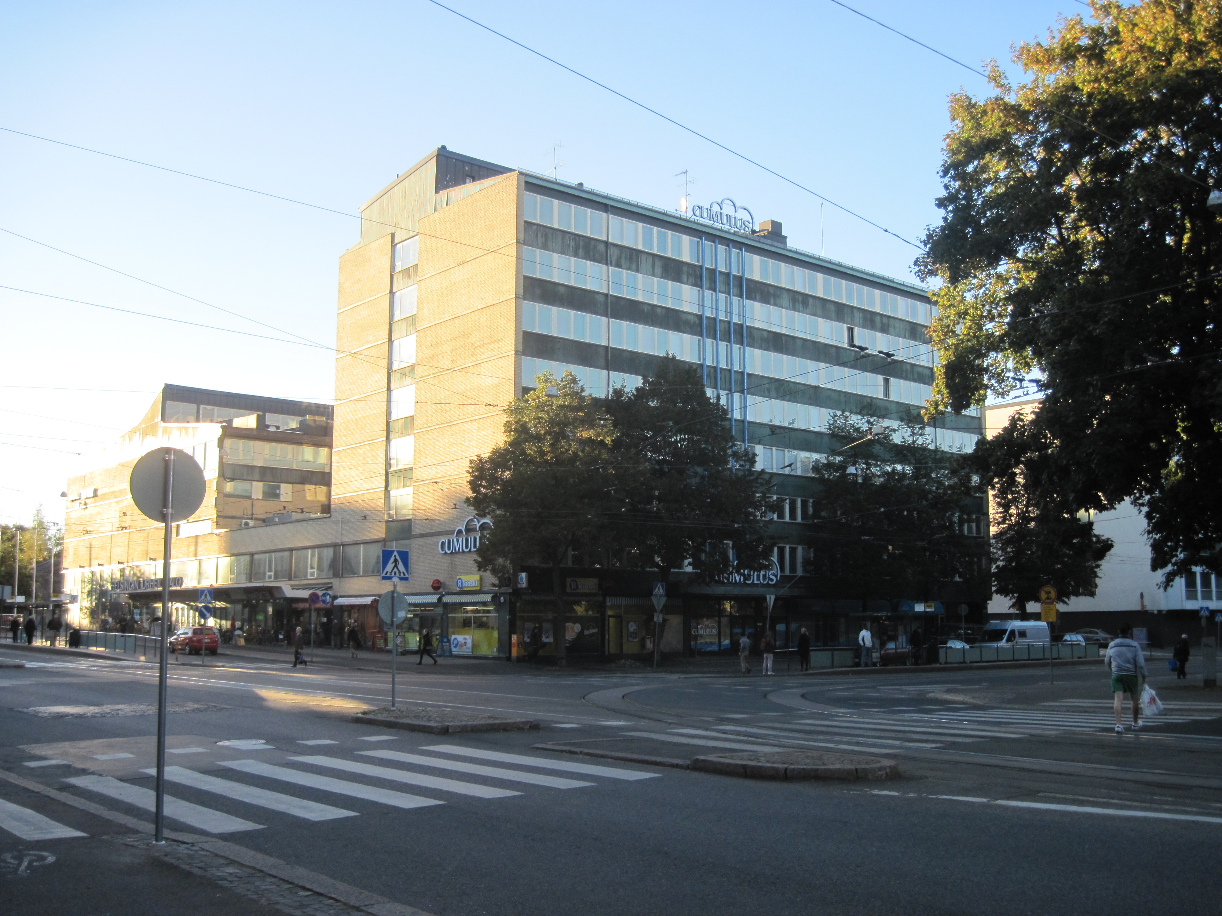 Helsingin urheilutalo, as seen from Helsinginkatu 26, Helsinki, Finland.